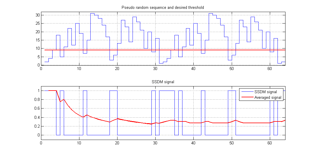 Demonstrates SSDM signal generation. 5-bit pseudo random number sequence is shown with a desired threshold, and a SSDM signal generated from the sequence. Also the averaged SSDM signal is shown to demonstrate how the density approaches a desired value.